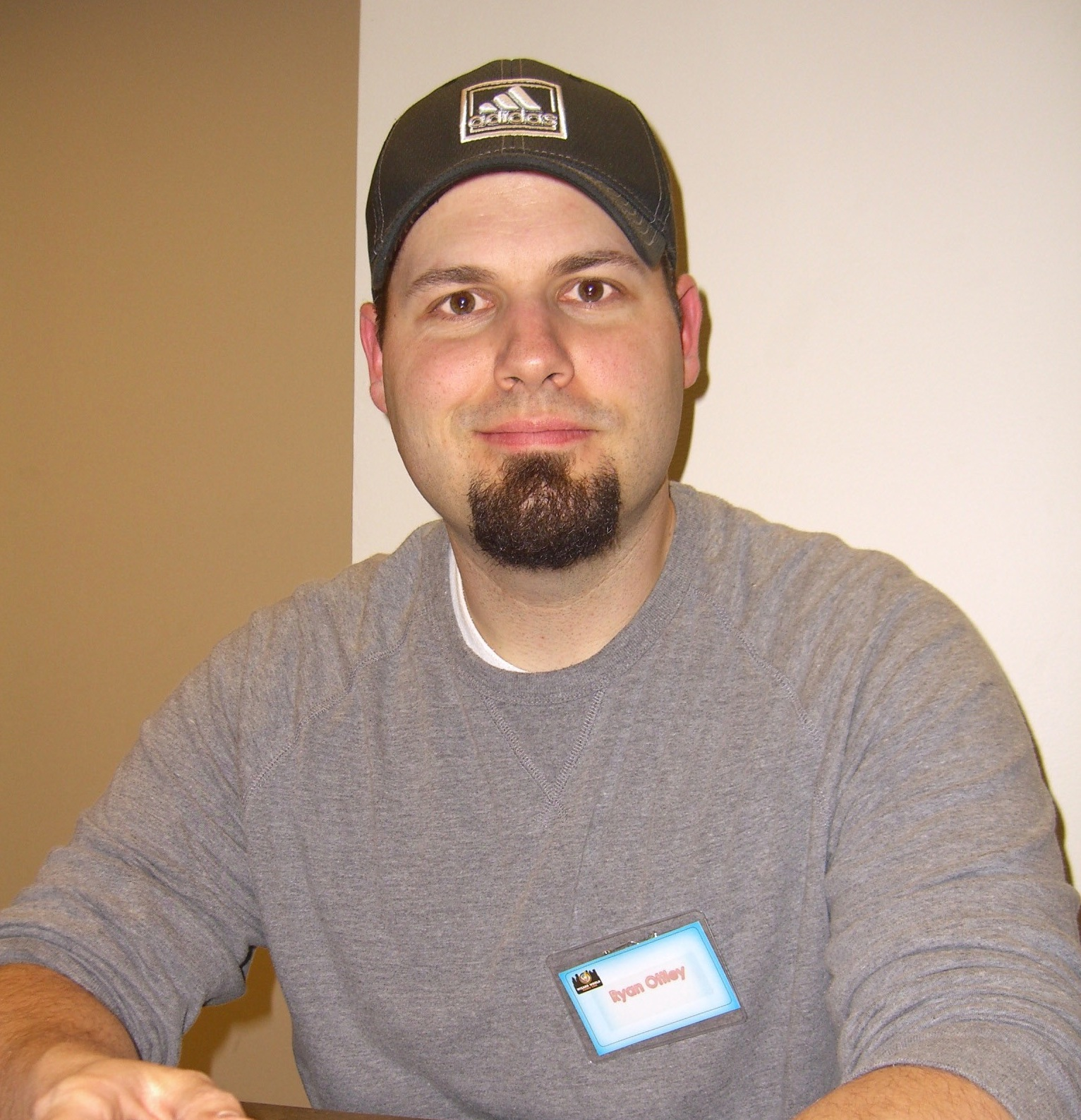 Comics creator Ryan Ottley at the Big Apple Convention in Manhattan, May 21, 2011. Photographed by Luigi Novi. This photo is not in the public domain. It may, however, be used, modified and published for any purpose, free of charge, only if the photographer is properly credited, either by linking the photograph to this page, or with an easily visible credit to the photographer placed near the photo in each instance in which it is used. (See licensing information below.) Publication of this photo without this proper attribution constitutes copyright infringement. If you have any questions, you can contact me on my Wikipedia Talk Page.